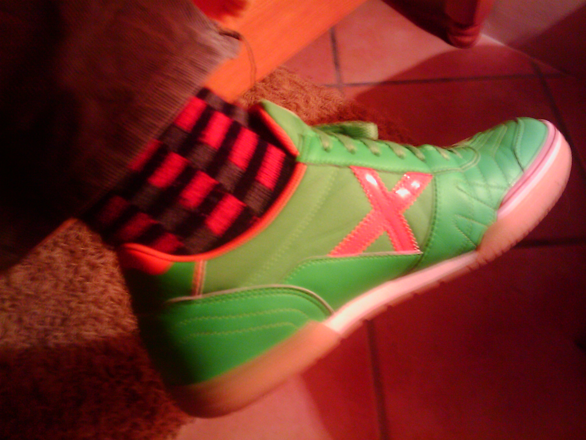 Shoe of Munich brand, with recognizable X cross